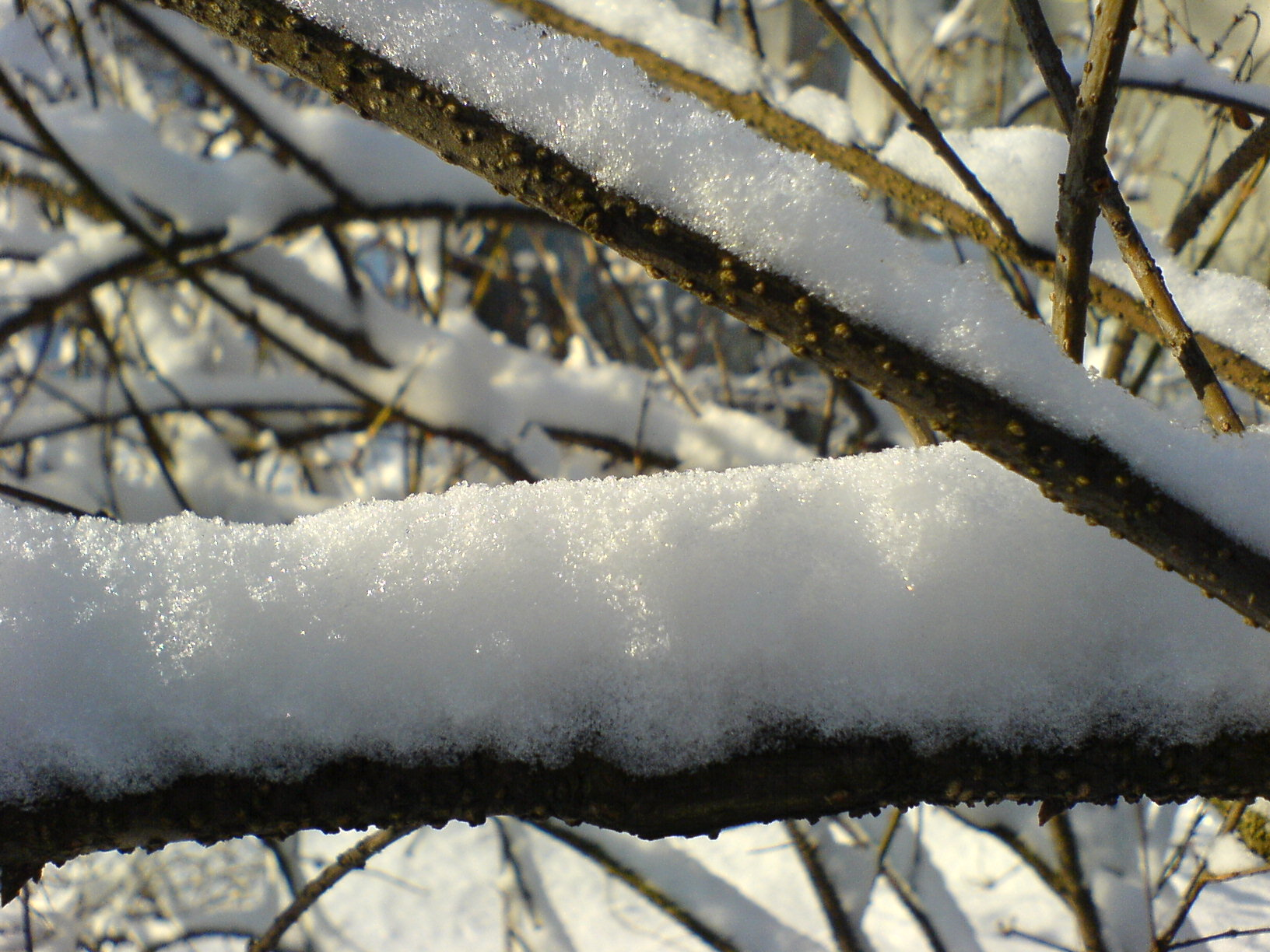 Fresh snow on a thin twig